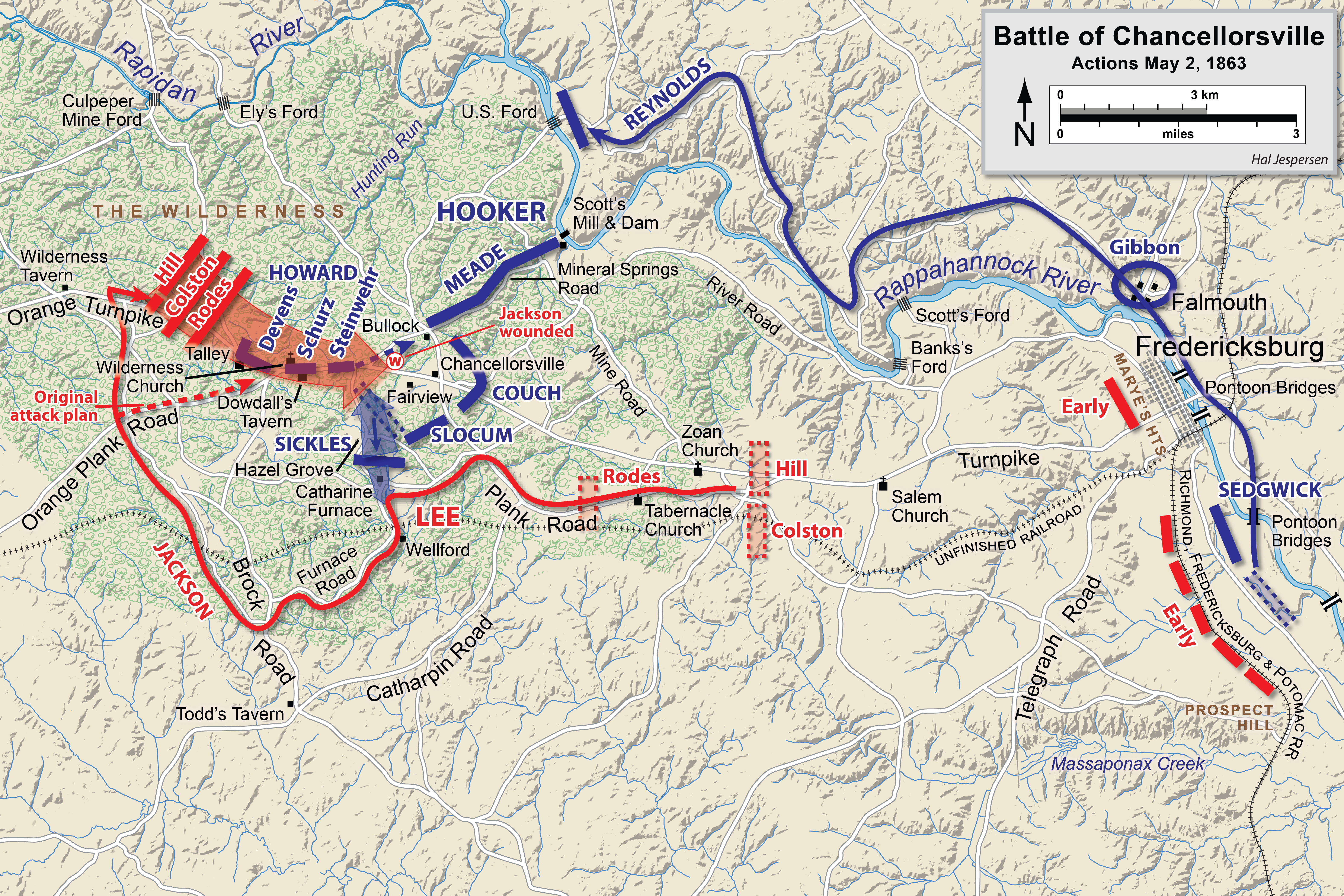 Map of a portion (May 2) of the battle of Chancellorsville of the American Civil War. This map partially replaces the map entitled Chancellorsville May1 2.png. Drawn in Adobe Illustrator CS6 by Hal Jespersen. Graphic source file is available at Attribution: Map by Hal Jespersen